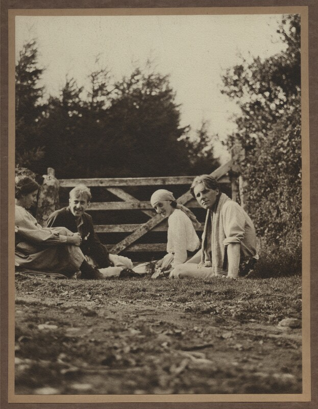 Noel Olivier; Maitland Radford; Virginia Stephen; Rupert Brooke, camping at Clifford Bridge, Dartmoor, 1911. Virginia wears a neopagan headscarf. For more information see Dartmoor scenes